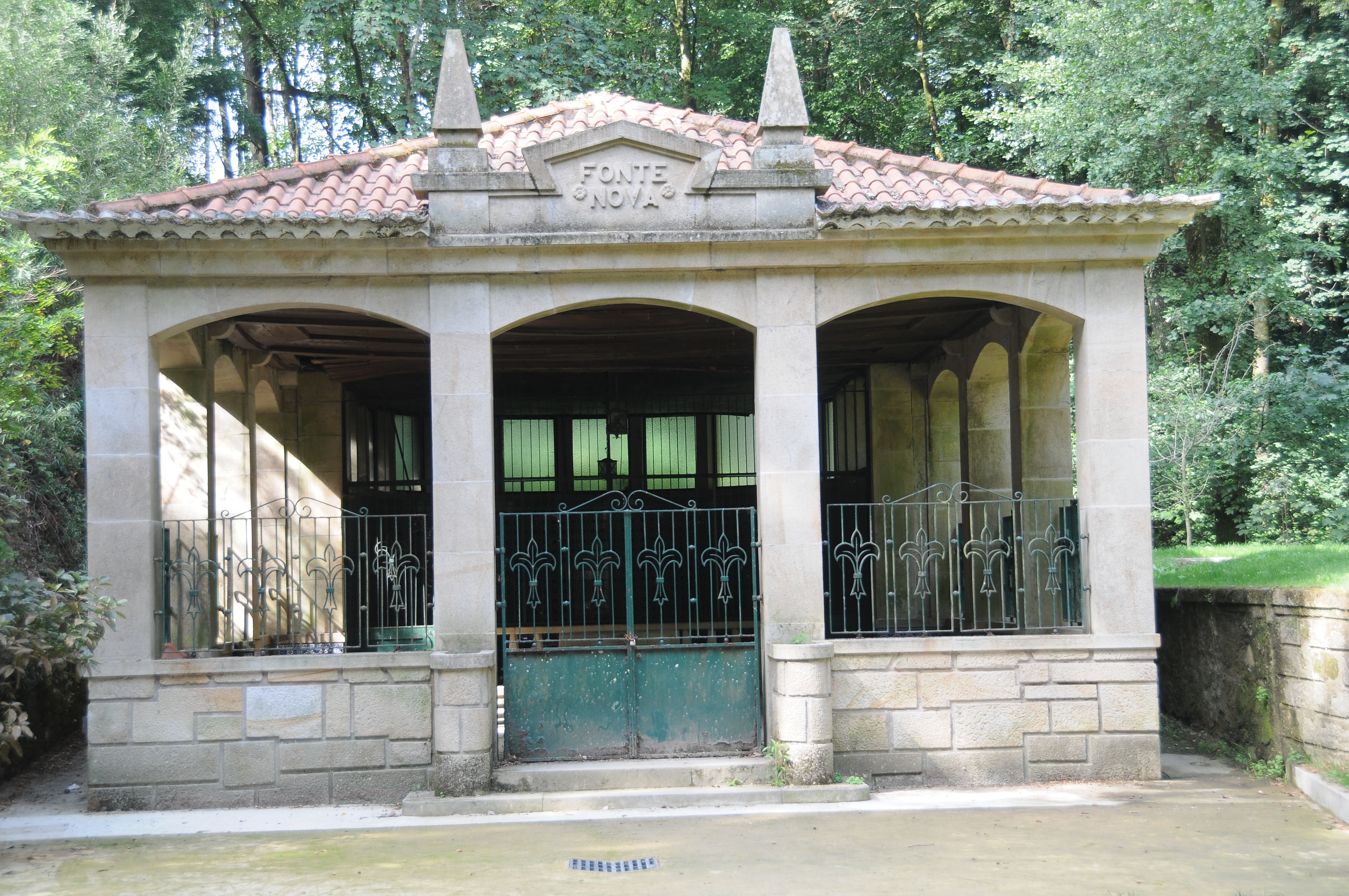 Fonte Nova in Peso, Melgaço, Portugal.